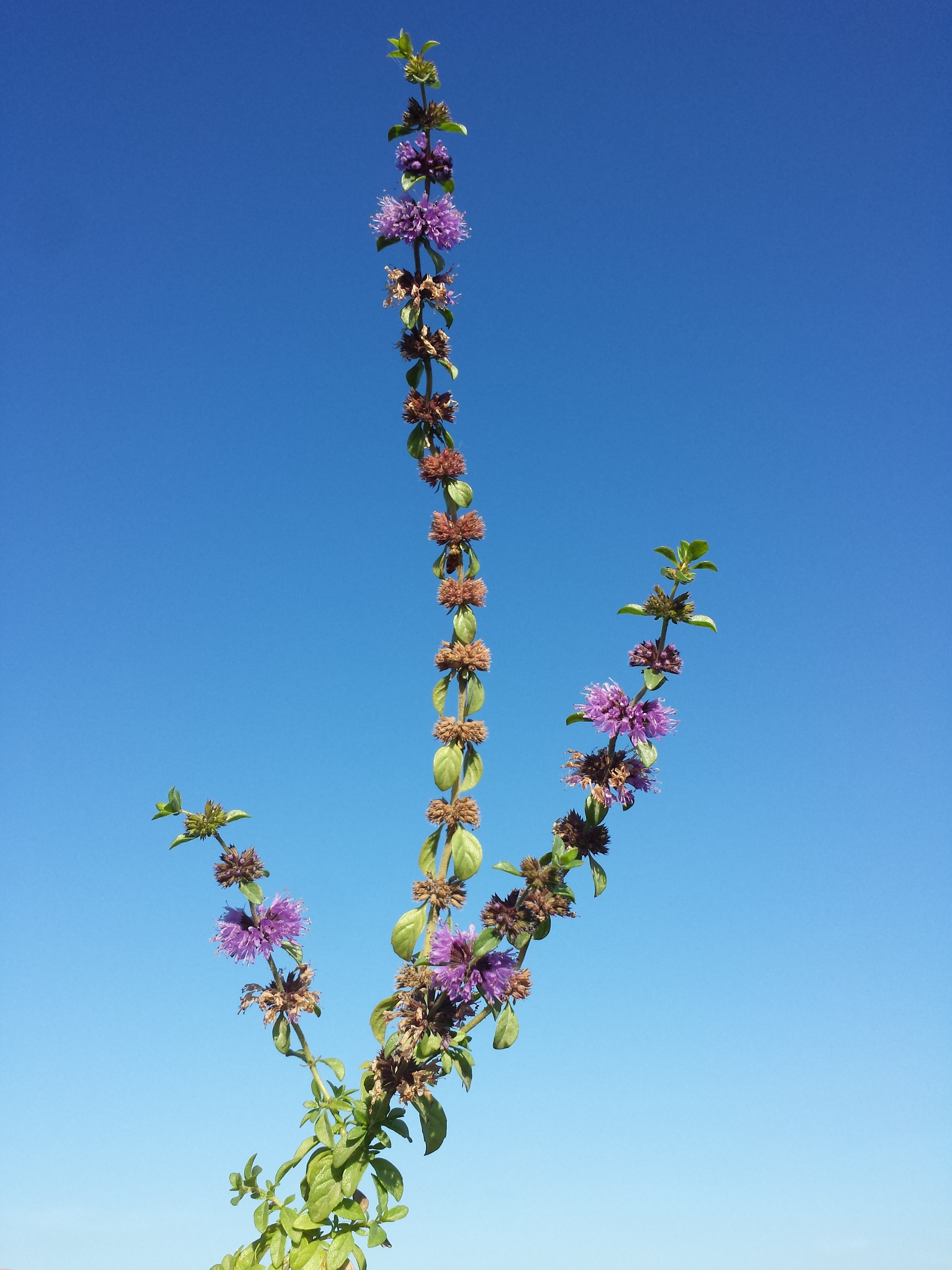 Inflorescence Taxonym: Mentha pulegium ss Fischer et al. EfÖLS 2008 ISBN 978-3-85474-187-9 Location: pond near Michelstetten, district Mistelbach, Lower Austria - ca. 250 m a.s.l. Habitat: shore of a pond